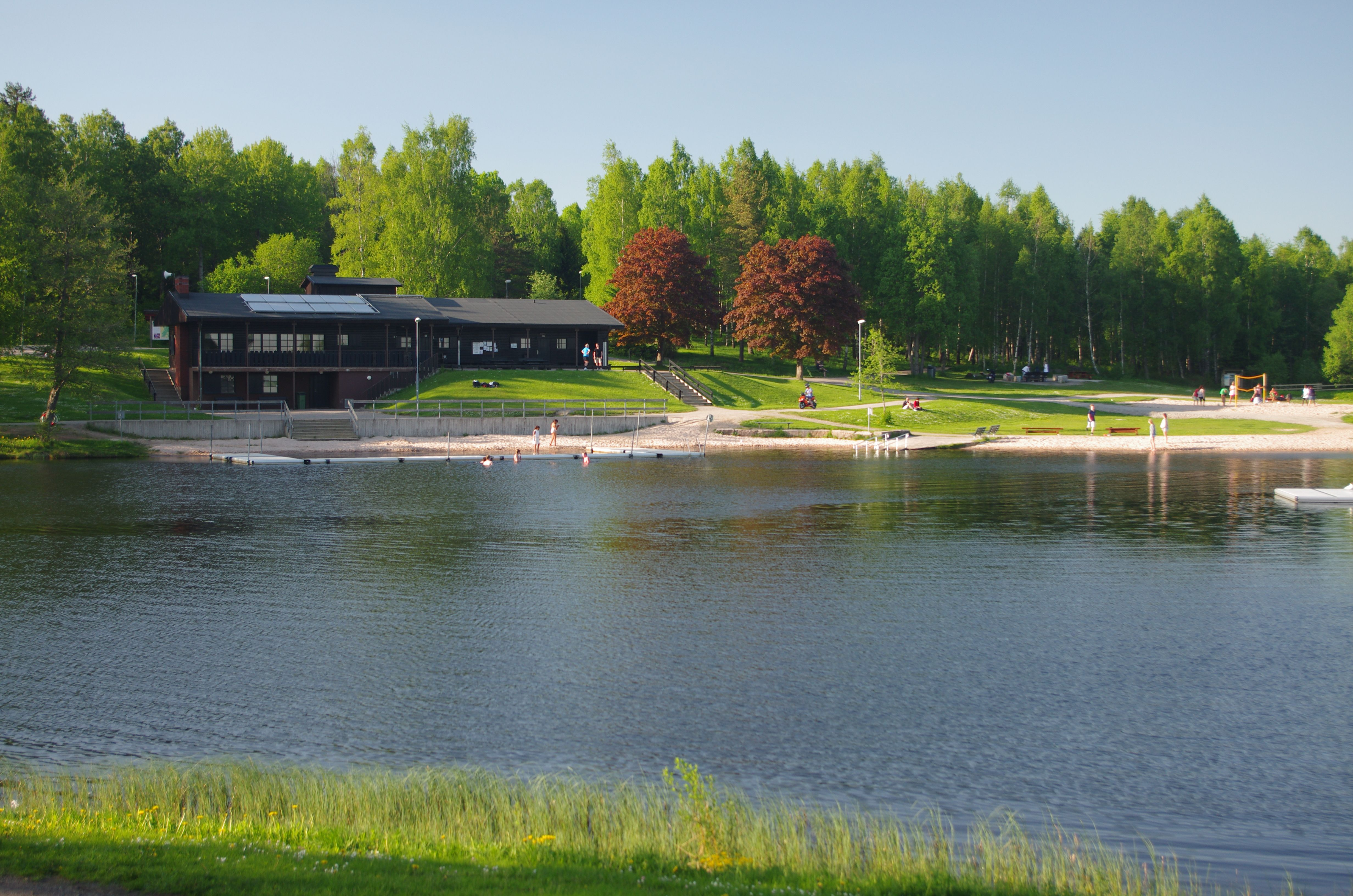 Skogssjön (Pankasjön): Lake in Västergötland Sweden